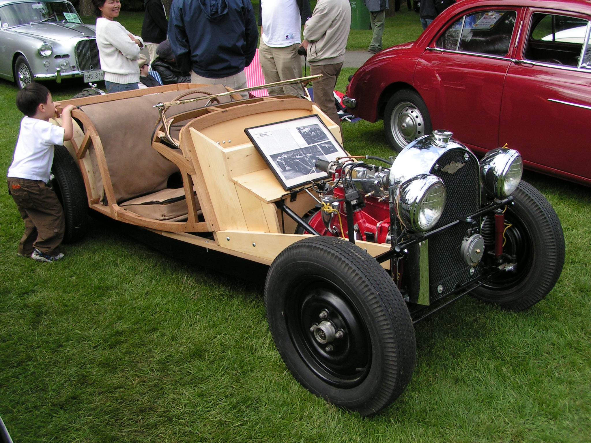 This was gained a lot of attention. Need to see it in this state with the wood frame clearly visible. Fully drivable as it drove in and out of the show.Morgan unfinished